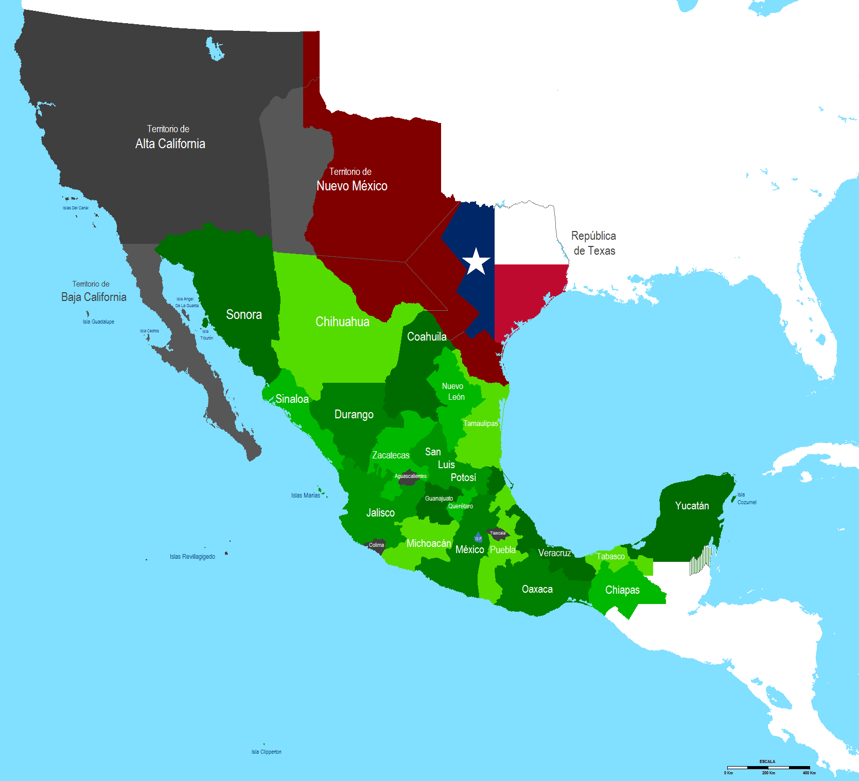 Map of Mexico in 1837 showing the territorial claims of Texas